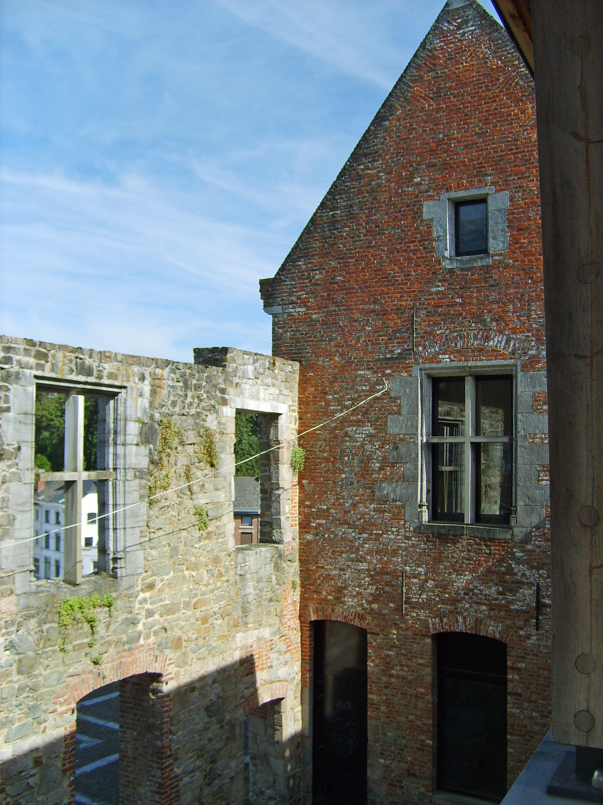 Binche (Belgium), the Caves Bette or Refuge de Bonne-Espérance (13th century), old shelter or refuge that belonged to the community of Bonne-Espérance Abbey.